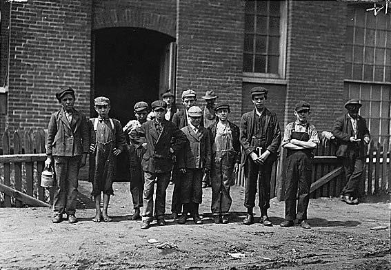 Original description: Group of workers in the Sagamore Mfg. Co. Fall River, Mass., 08/26/1911. Photographed by Lewis Hine.